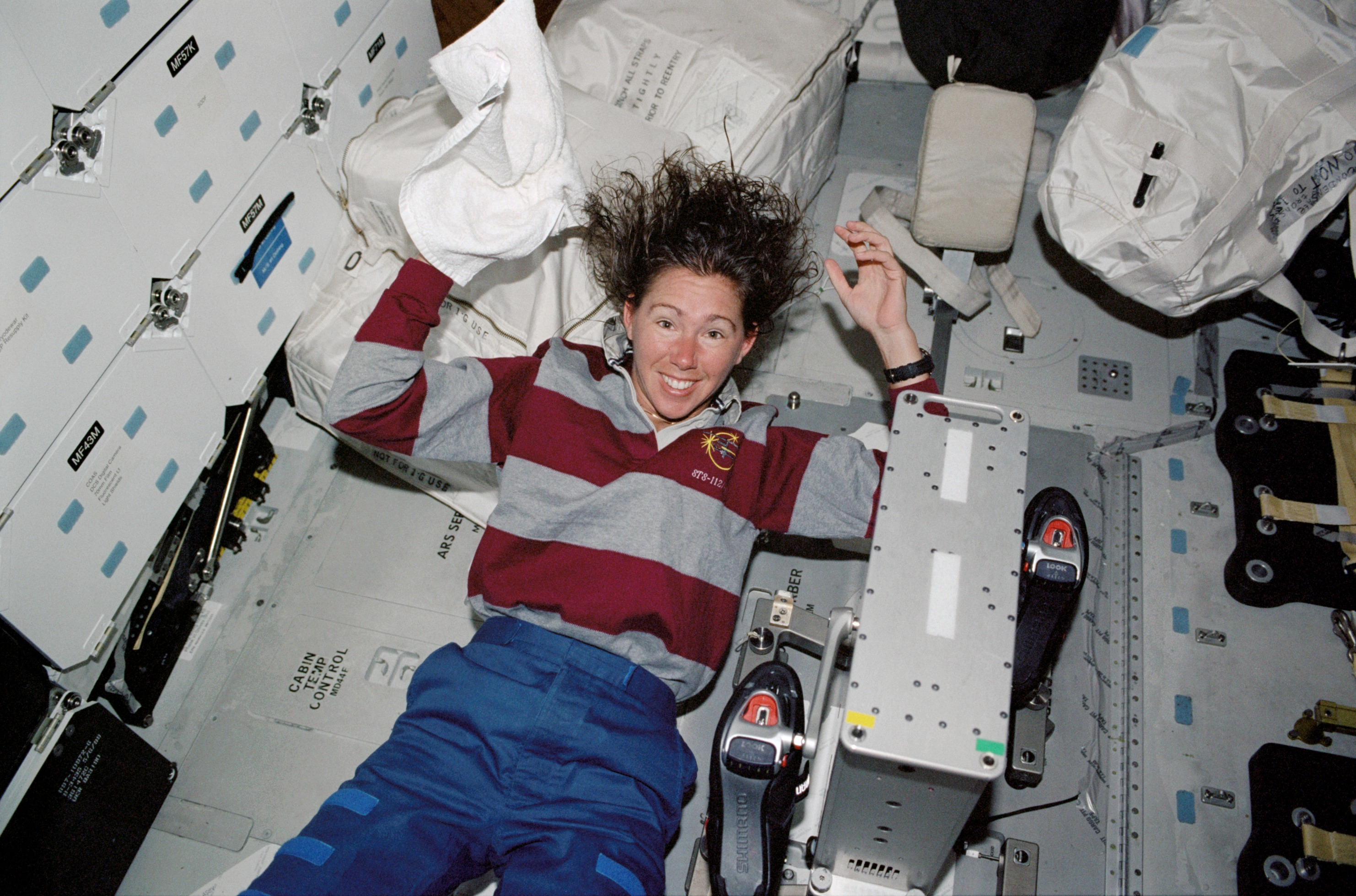 Astronaut Sandra H. Magnus, STS-112 mission specialist, washes her hair near a bicycle ergometer on the middeck of the Space Shuttle Atlantis